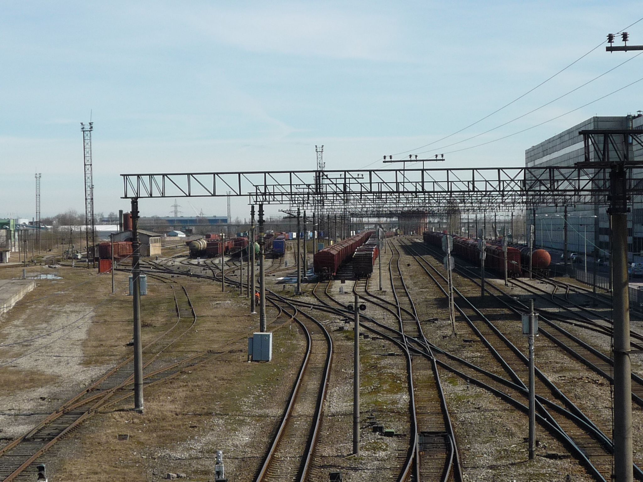 Ülemiste railway station (trade). Tallinn, Estonia.